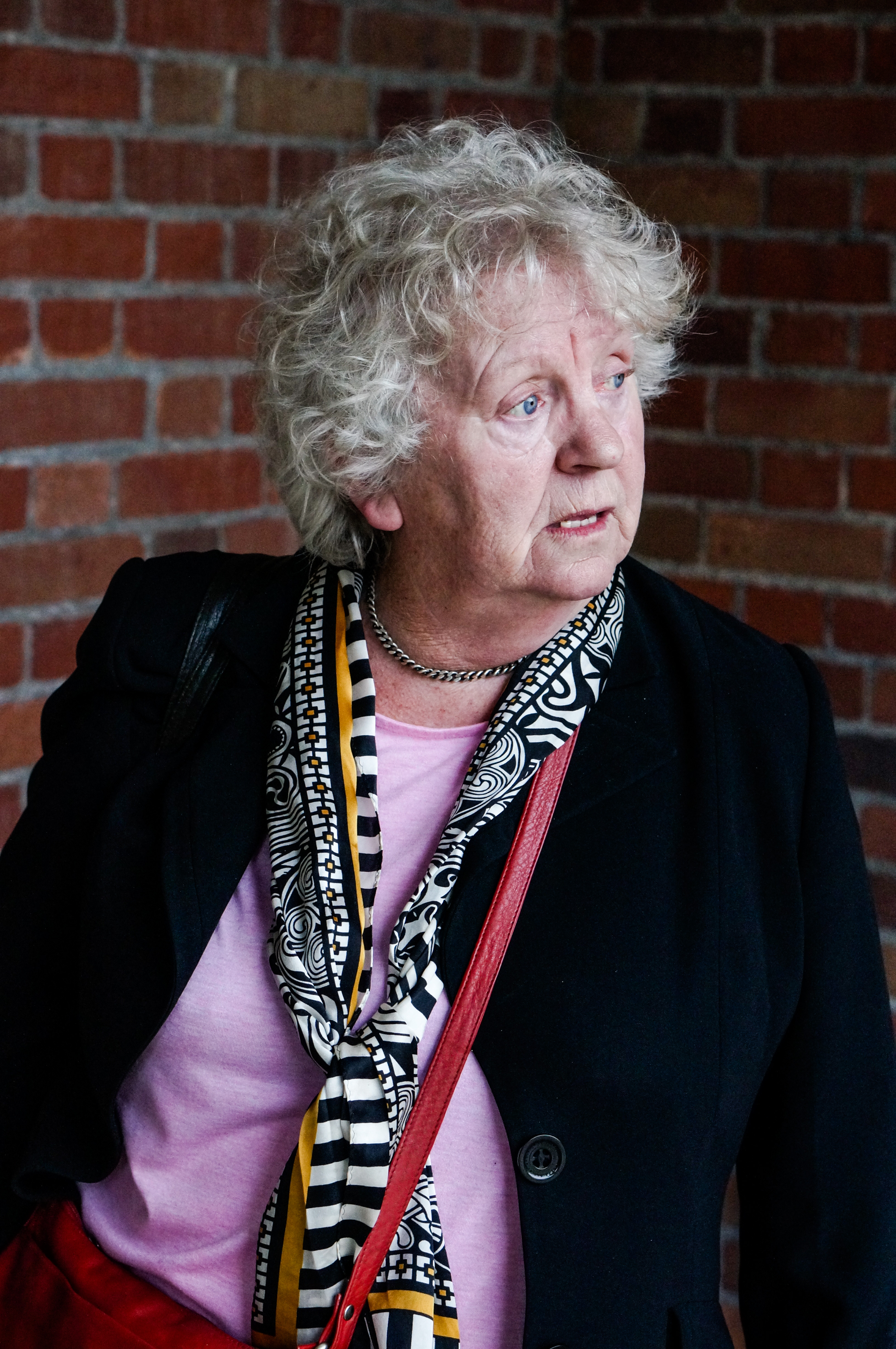 Author & Journalist